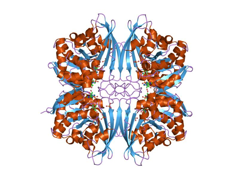 Cartoon representation of the molecular structure of protein registered with 2czc code.